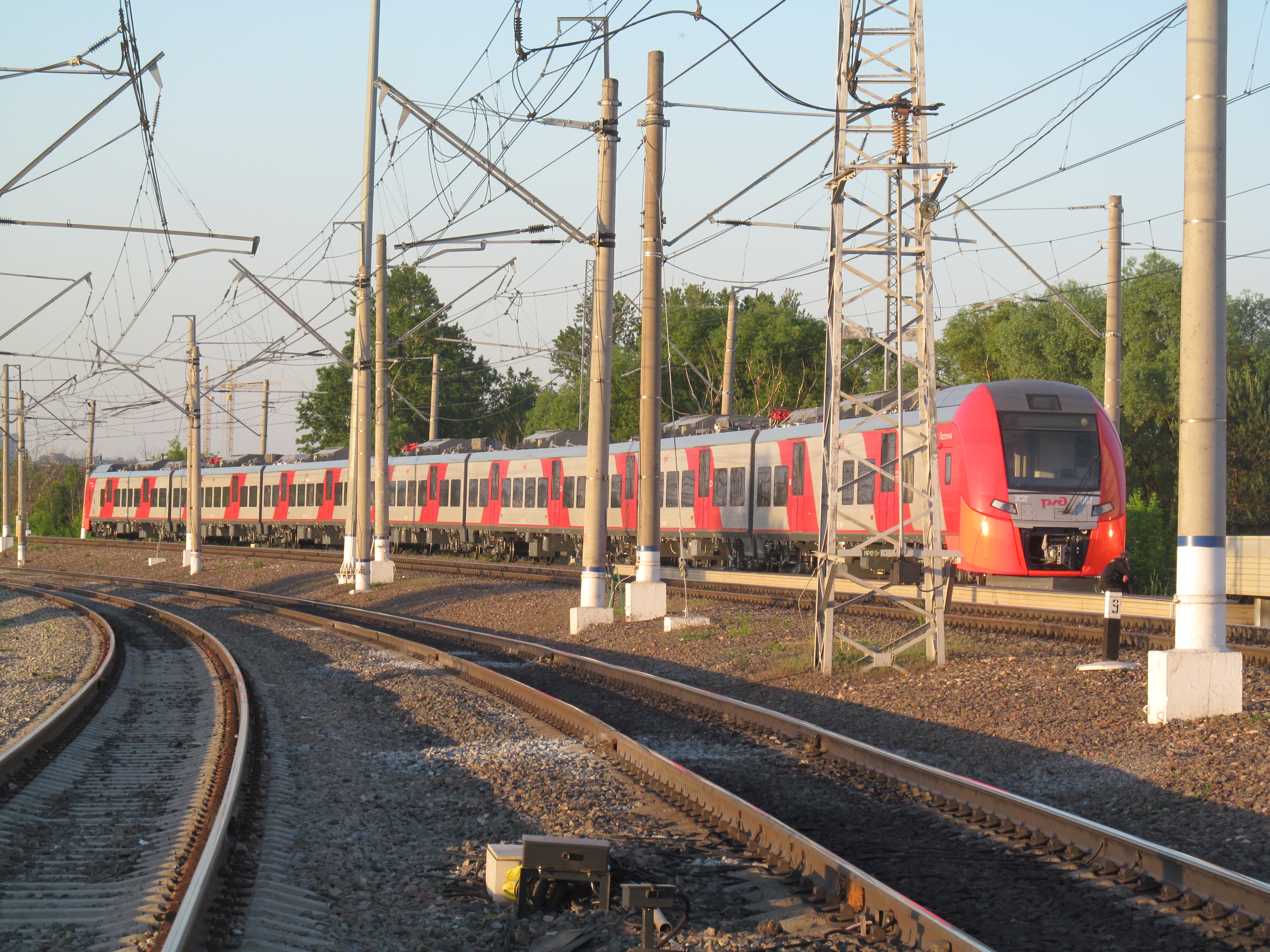 7-car formation "Lastochka" ES2G-087 EMU-train (the first "Lastochka" family EMU-train in 7-car formation) on test. Railway test circuit, Shcherbinka